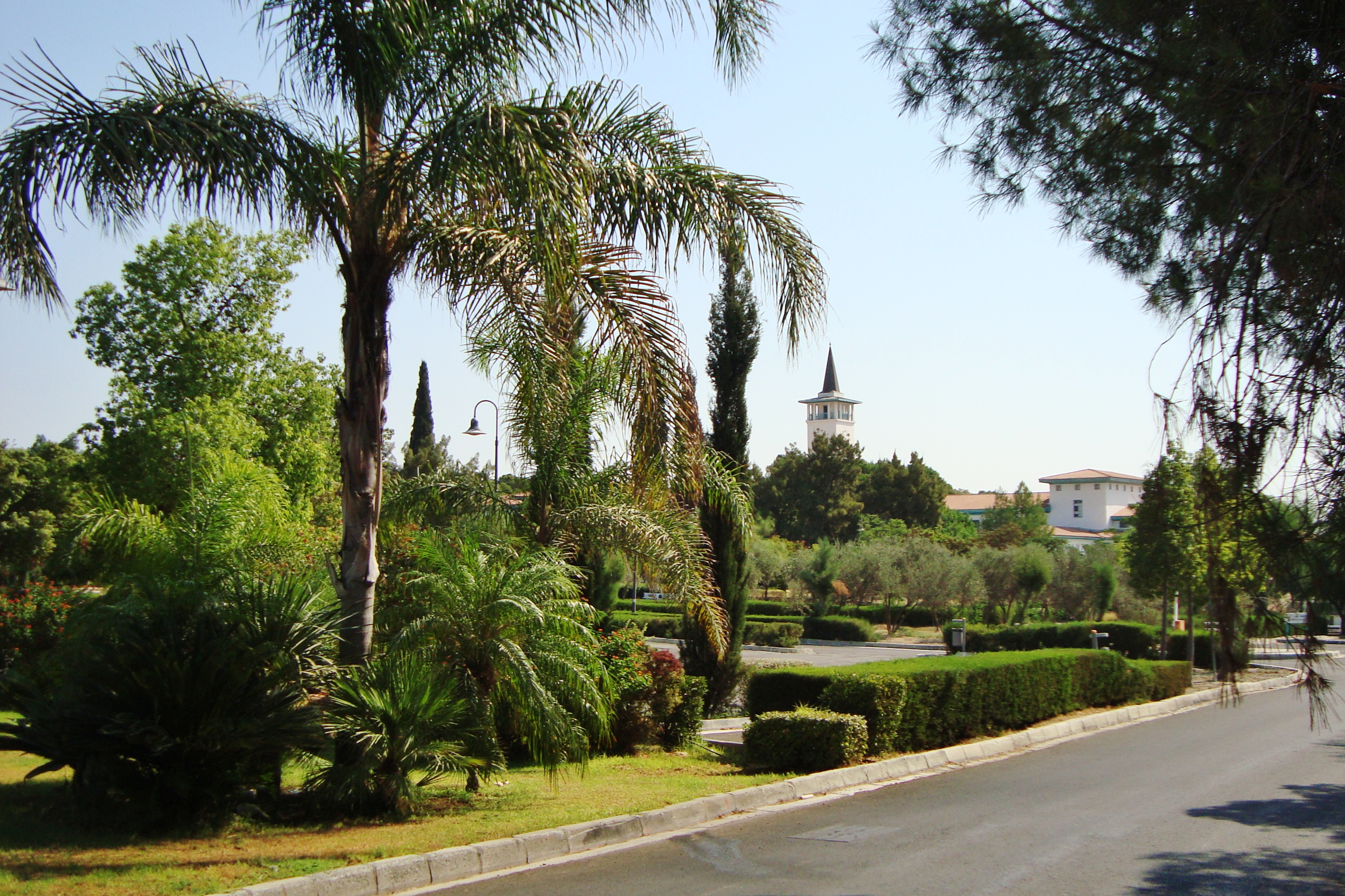 University of Cyprus in Nicosia capital of the Republic of Cyprus